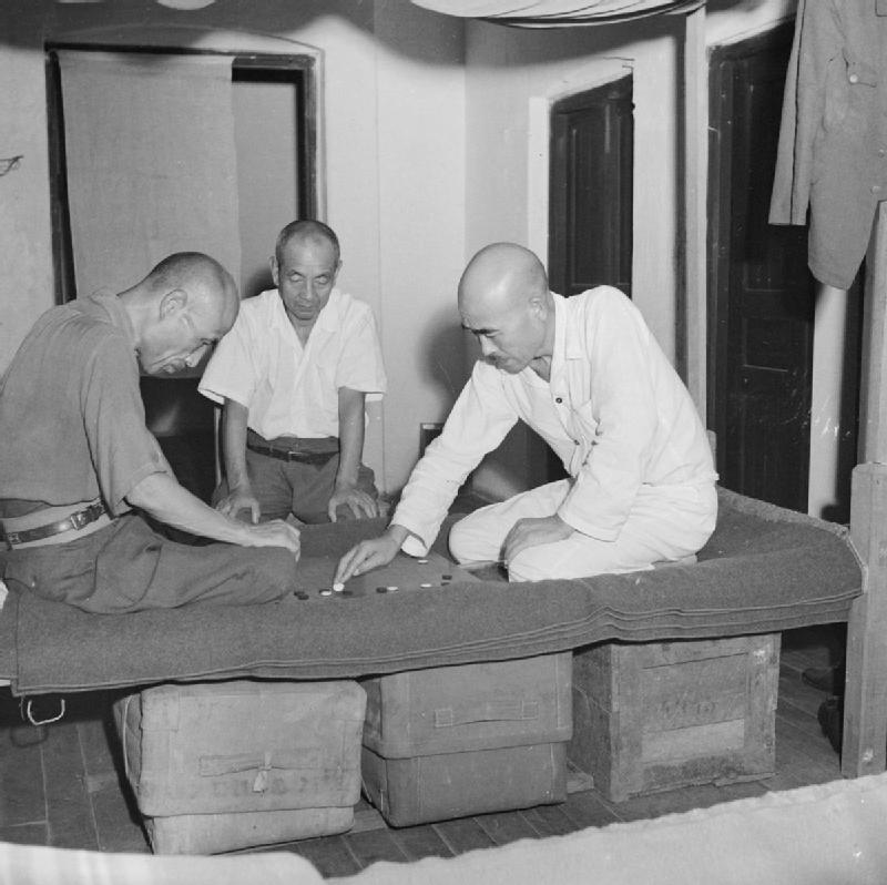 The War in the Far East- the Burma Campaign 1941-1945 Japanese Personalities: Lieutenant General Honda Masaki, Commander of the XXXIII Army and one of the most tenacious and determined Japanese commanders. The photograph shows Honda (right) with Lieutenant General Hayashi (left) and Major General Koba (centre) playing a game called 'Go' in a British prisoner of war camp.